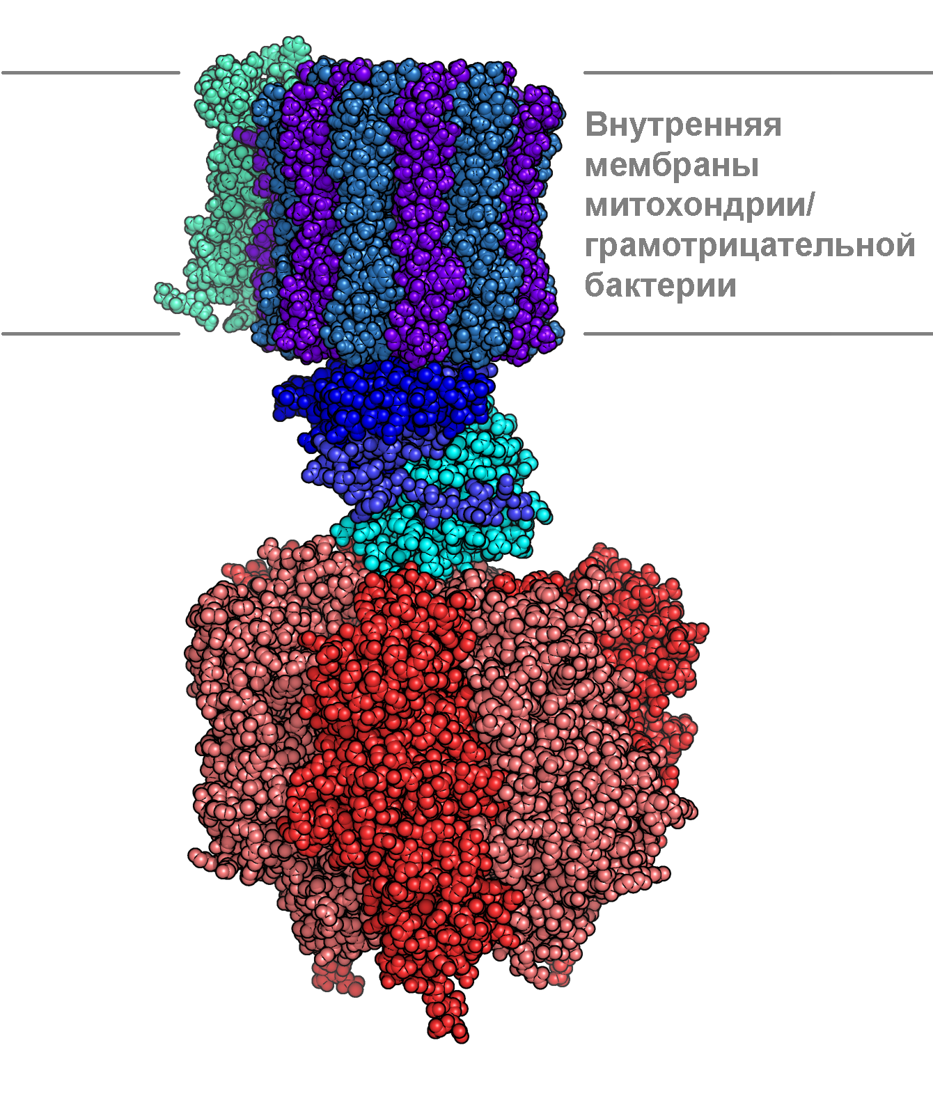 Using 1QO1 as framework to combine 1C17(FO) and 1E79(F1. PyMOL was used for rendering.